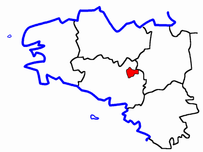 Description: Map for localisazion of cantons of Bretagne region in France Source: made by Hervé Tigier in april 2005 from another large map (published in 1990)